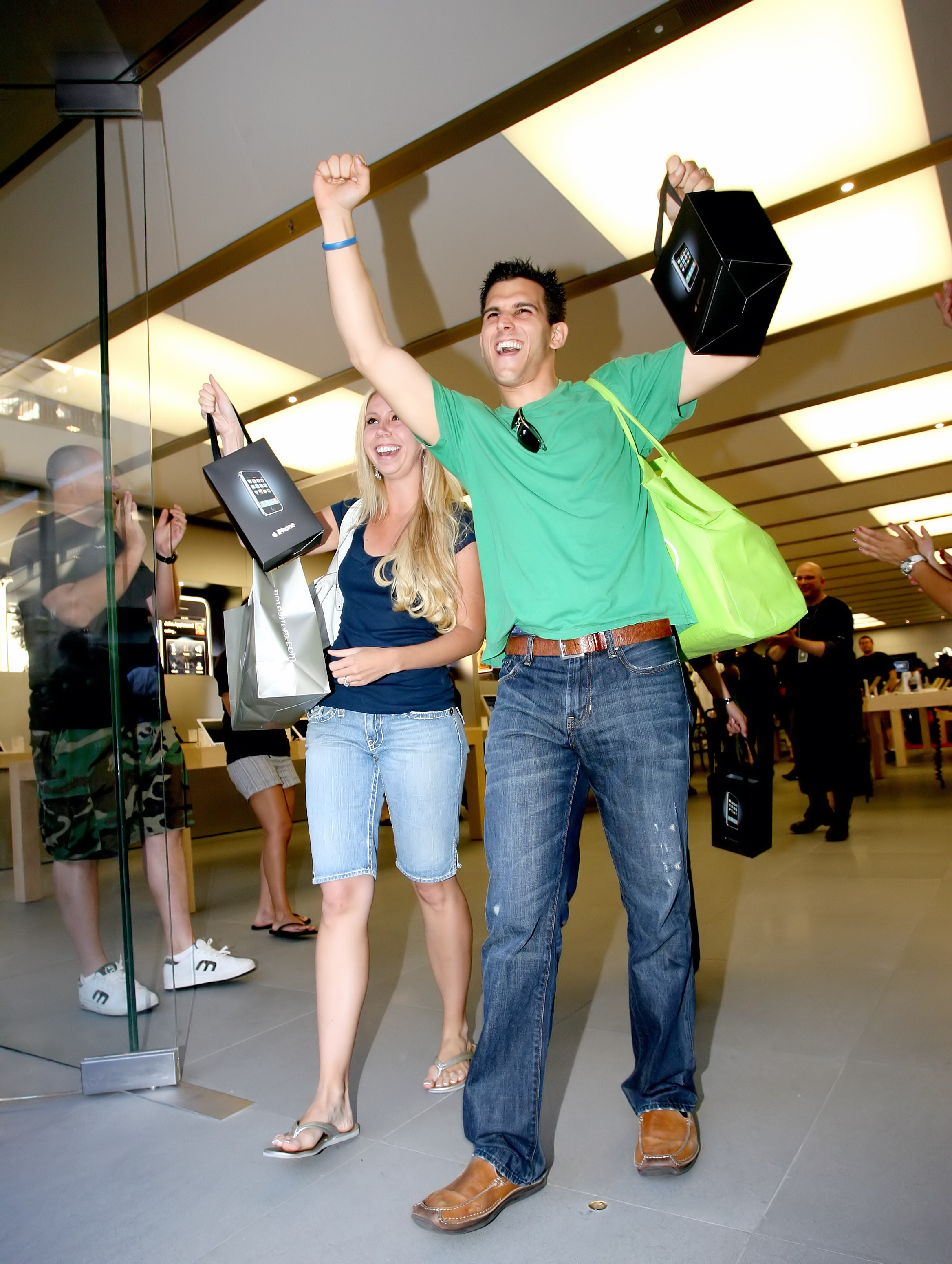 A couple shows excitement as they buy their iPhone when it was released in June 2007.